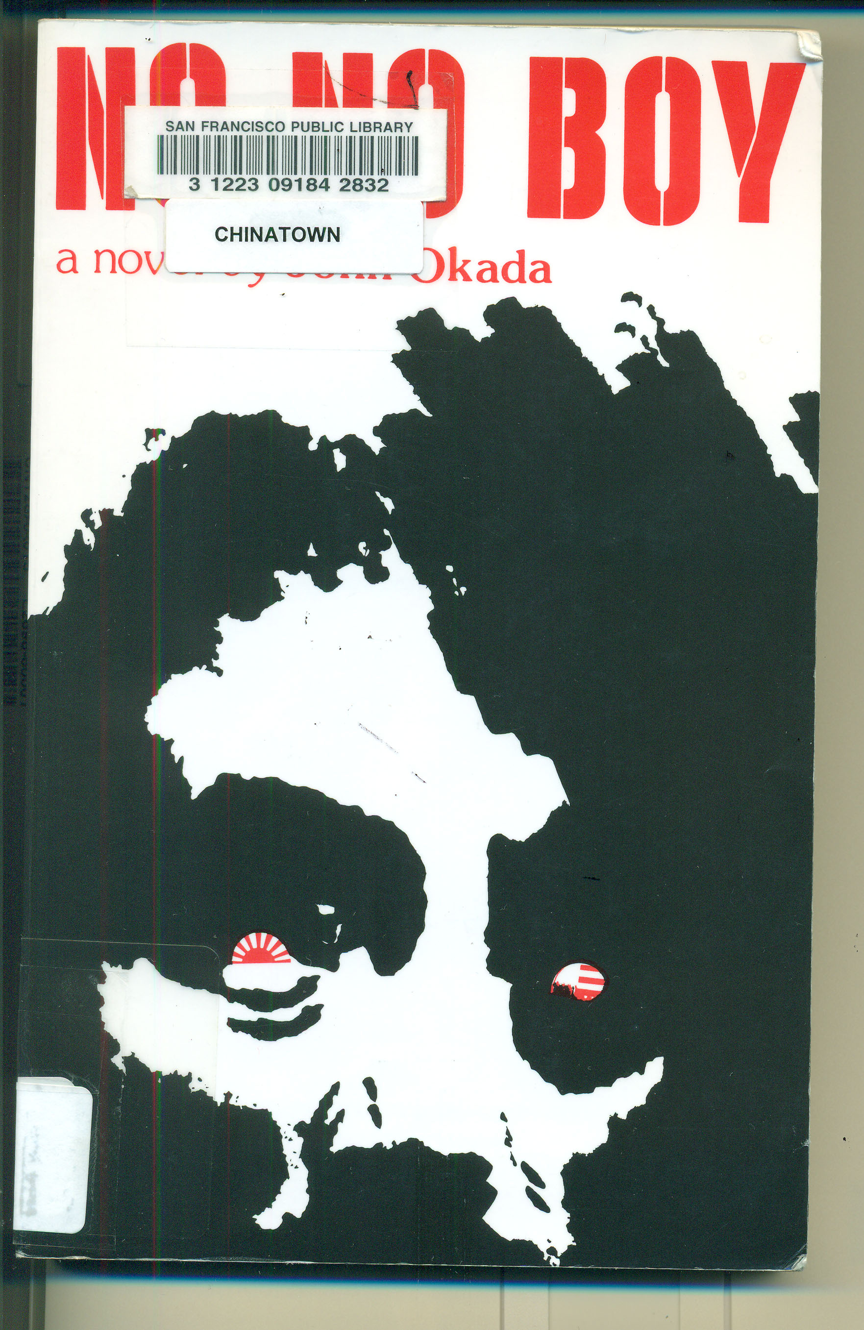 Cover of John Okada's 1957 novel, No-No Boy with Bob Onodera's 1976 design with the flags of the U.S. and Imperial Japan peering from Ichiro Yamada's (the protagonist) face.